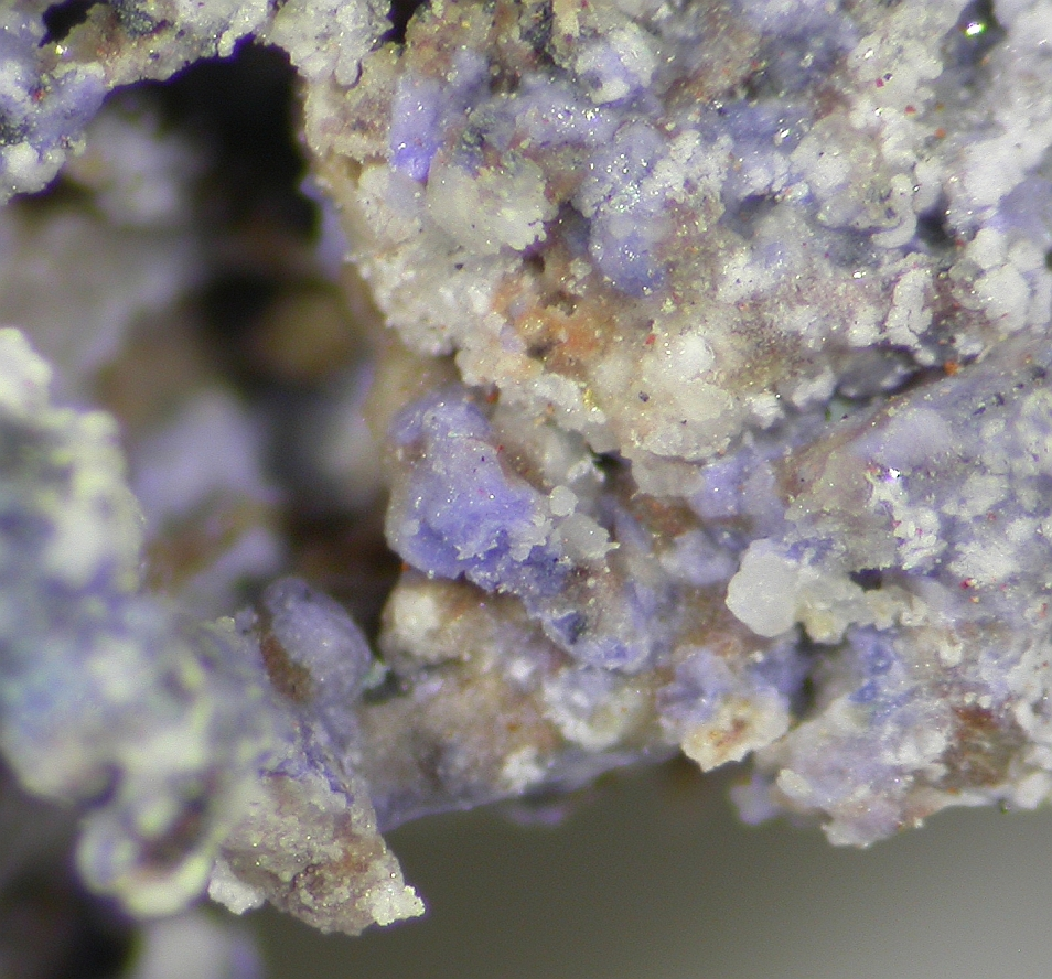 Johillerite Locality: Second scoria cone, Northern Breakthrough (North Breach), Great Fissure eruption (Main Fracture), Tolbachik volcano, Kamchatka Oblast', Far-Eastern Region, Russia Field of view 3 mm